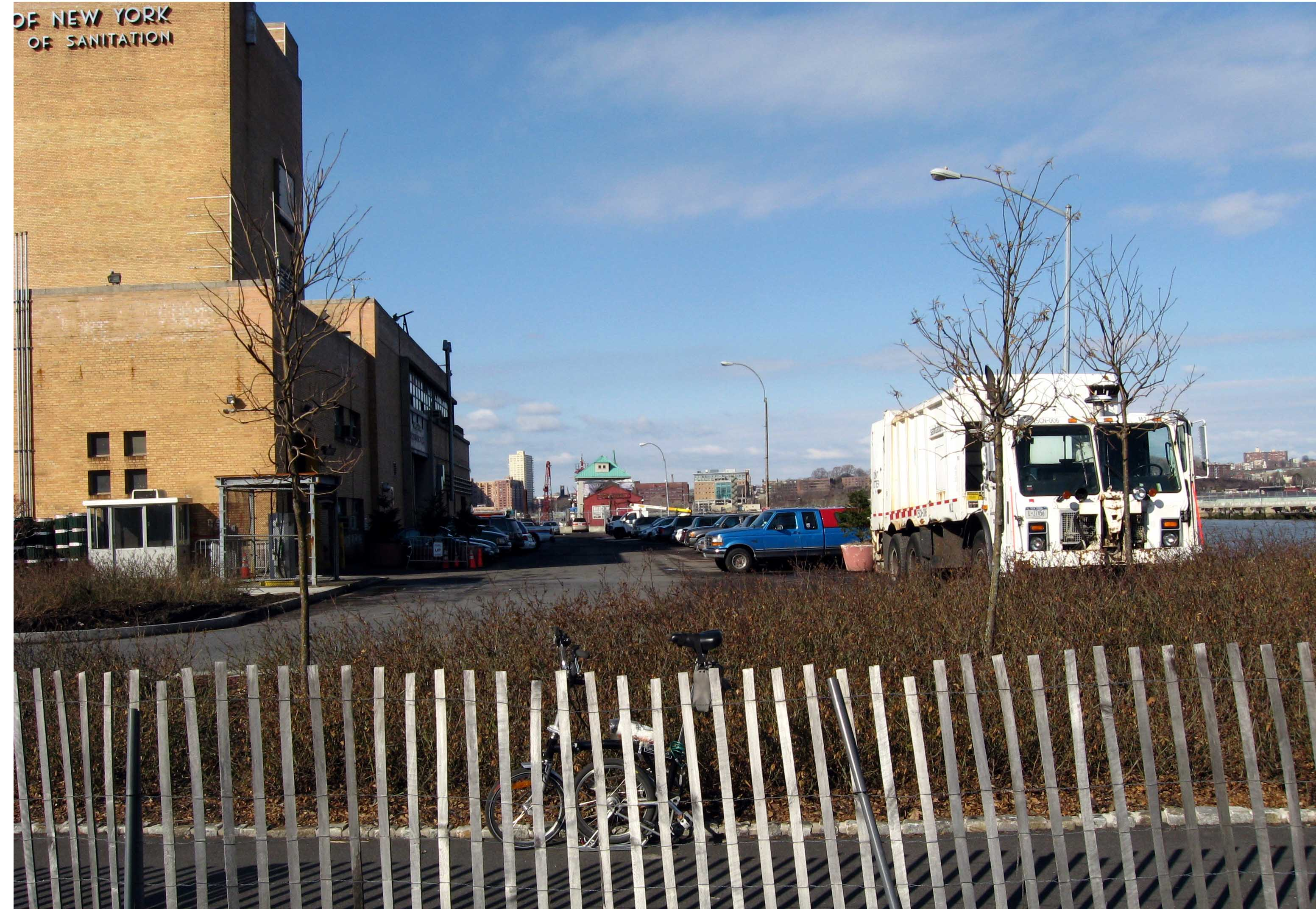 Looking west along Bloomfield Street into the Gansevoort Peninsula towards 13th Avenue